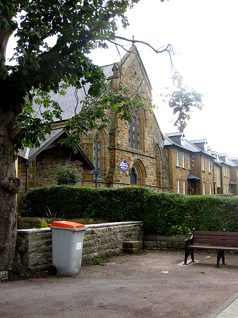 Methodist Church, Lanchester Front Street.